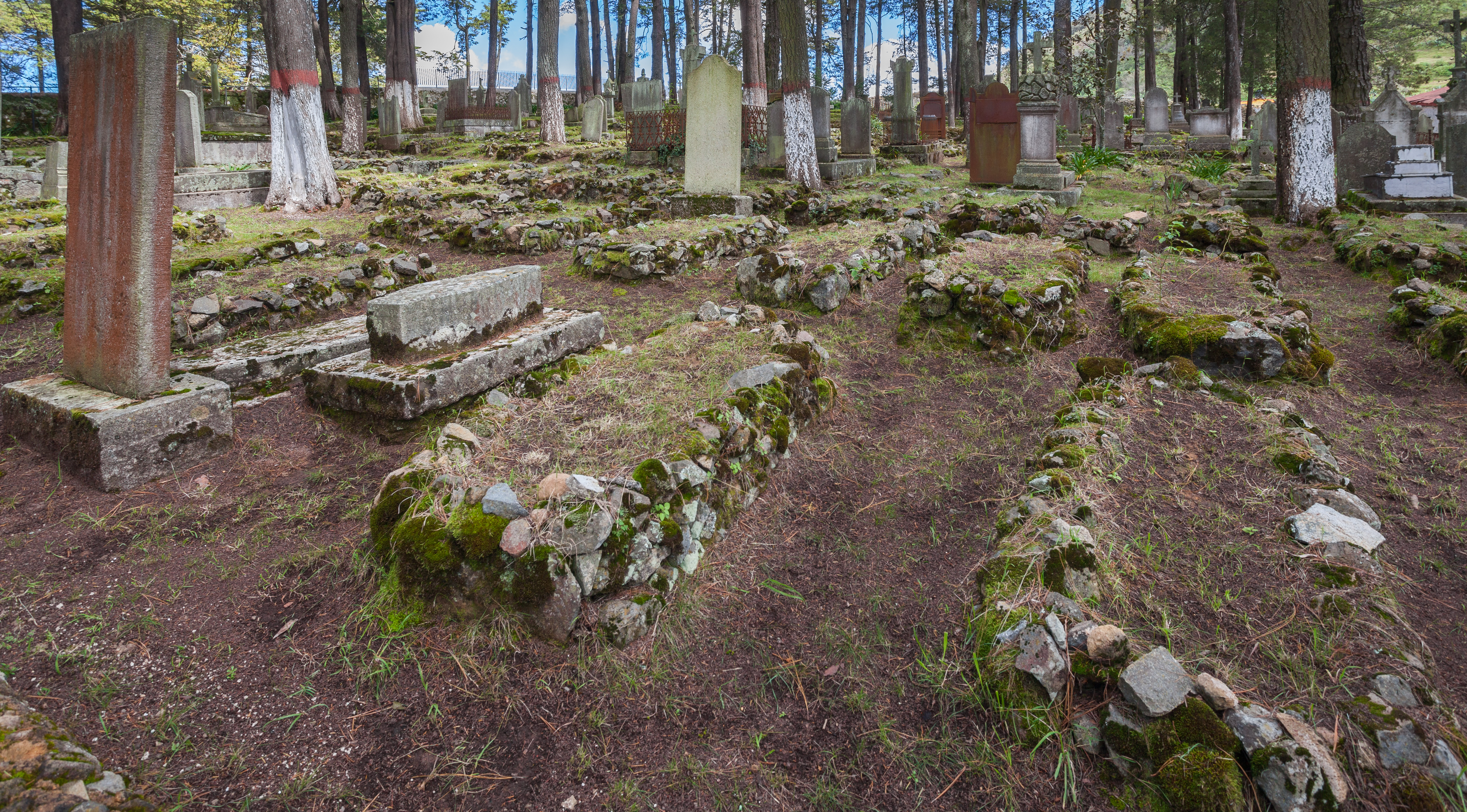 English Pantheon, Real del Monte, Hidalgo, Mexico